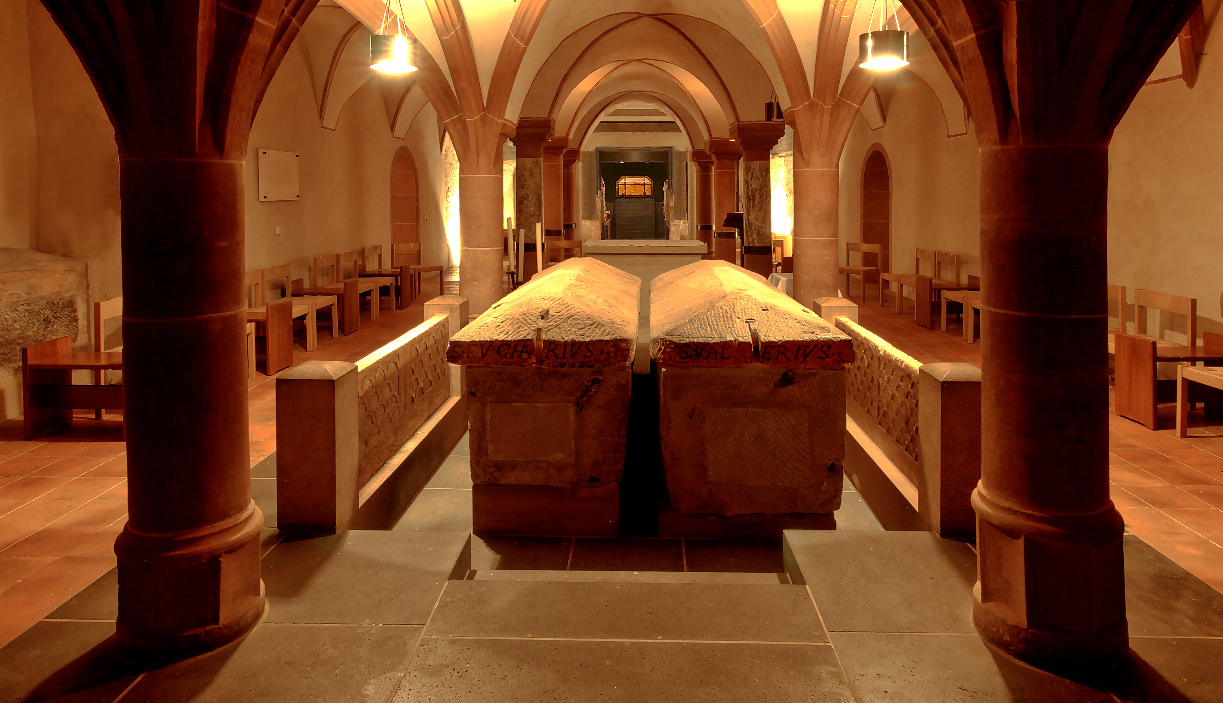 Basilika St. Matthias Trier / Germany (crypt): Sarcophagi of St. Eucharius (on the left), St. Valerius (on the right) and Apostel St. Mattias (in the background)